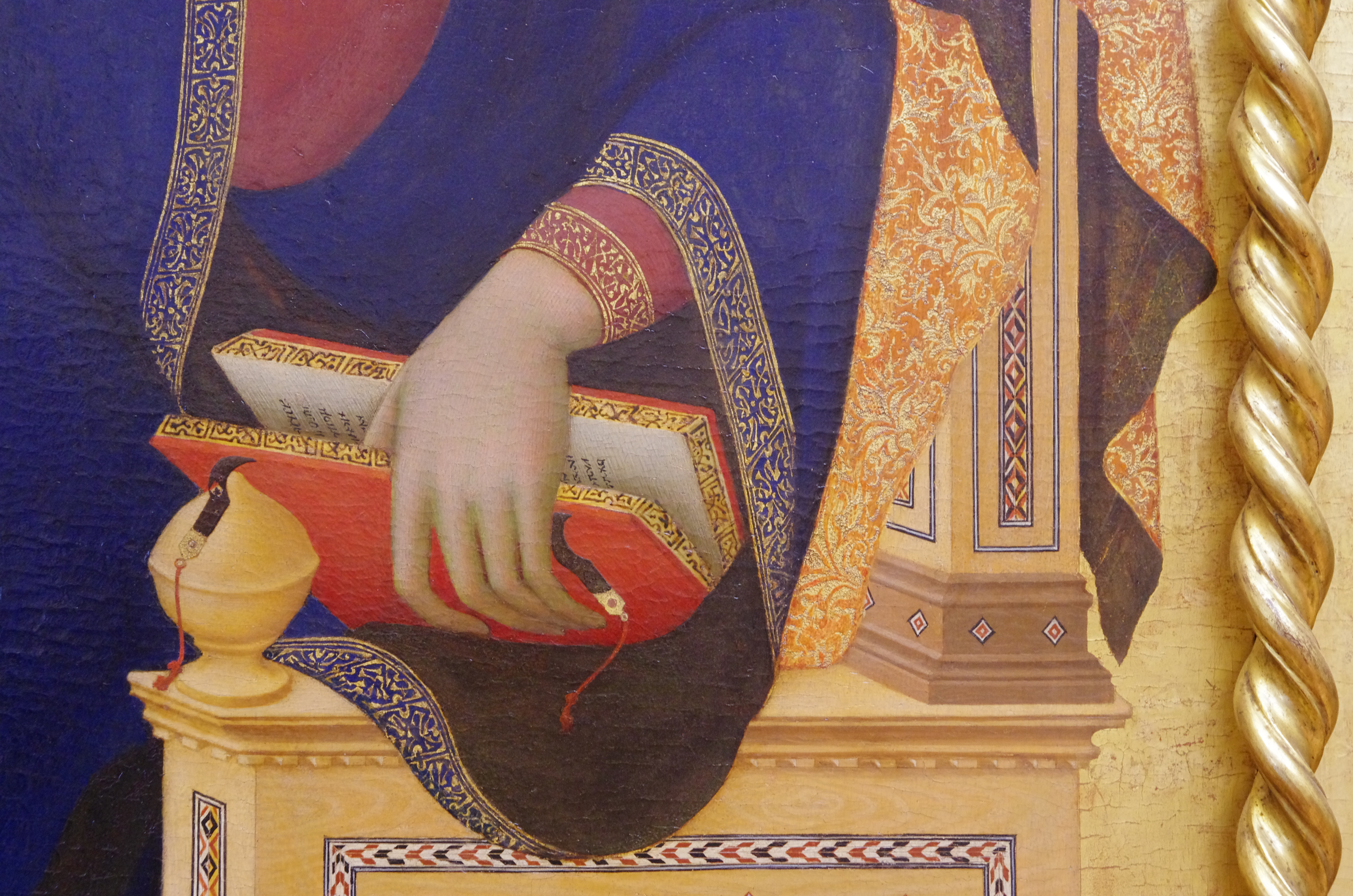 hand throne and fabrics of the Virgin